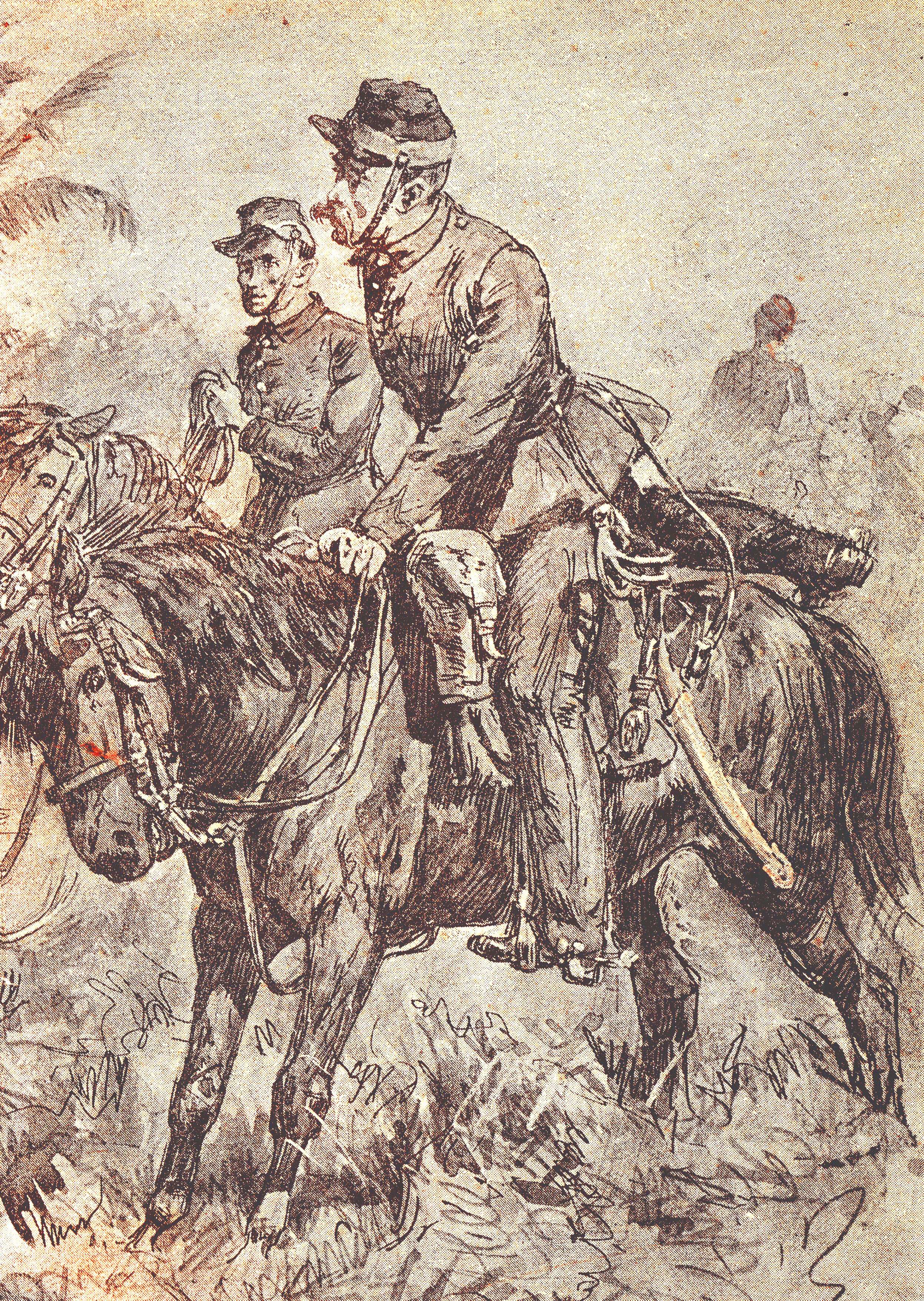 Gevechten te Atjeh